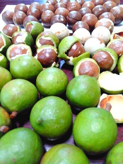 Macadamia